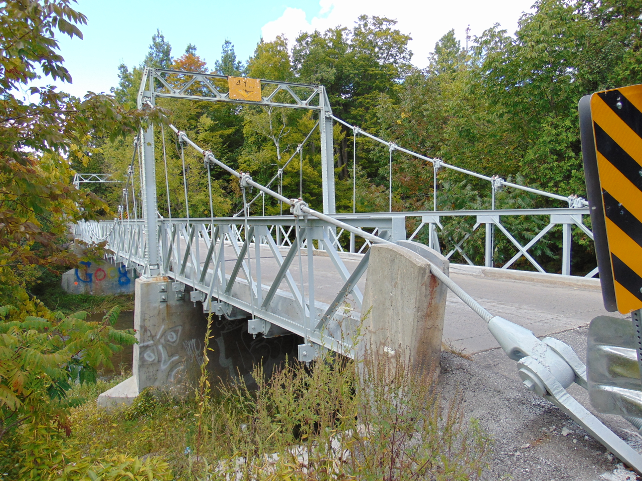 Scarborough, Ontario, Canada, 43.827543, -79.199728